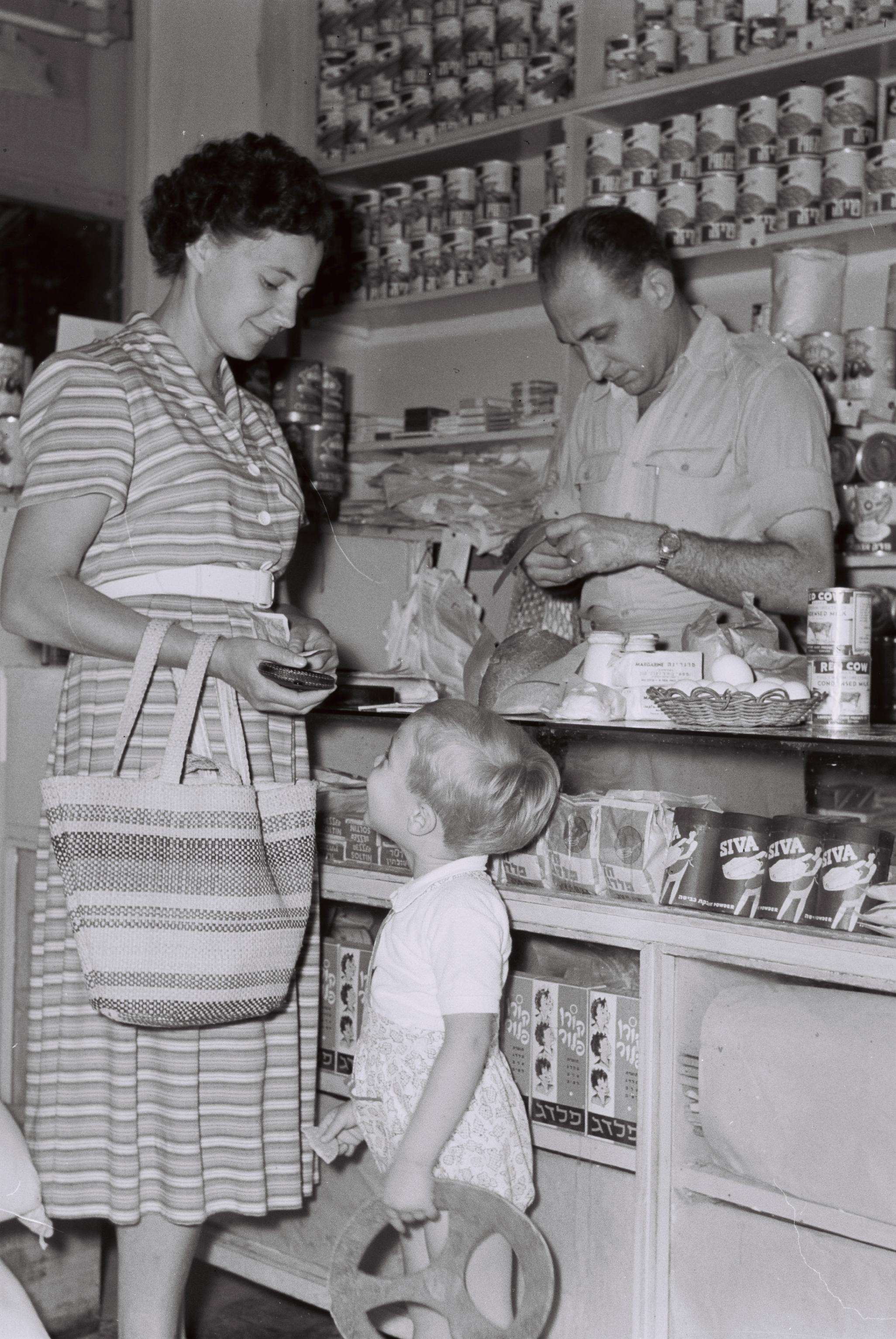 Grocery well-stocked. With careful rationing, there will be enough for all.